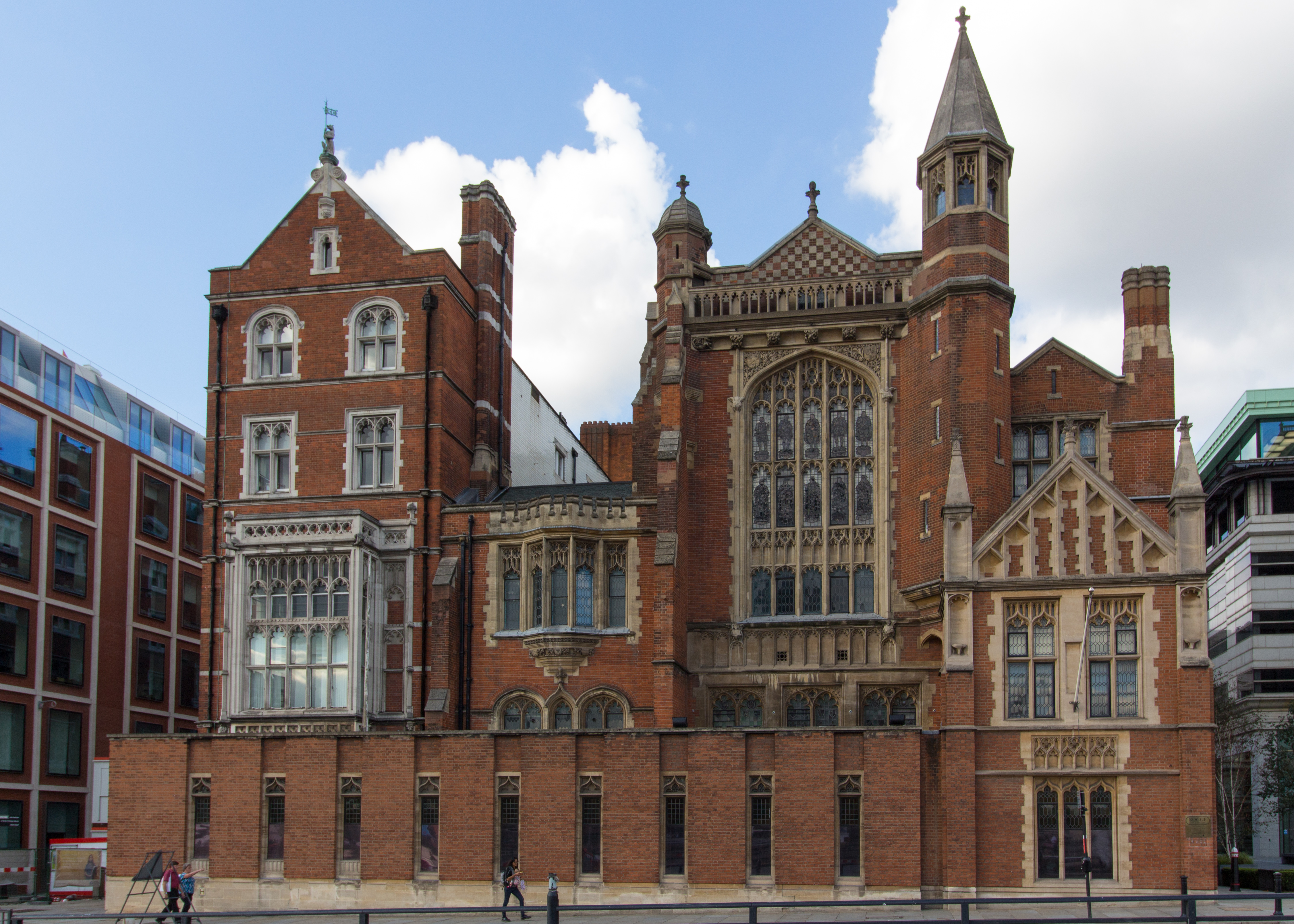 Former premises of Sion College, Victoria Embankment, London. Now just offices.